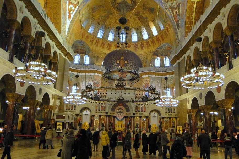 Interior view